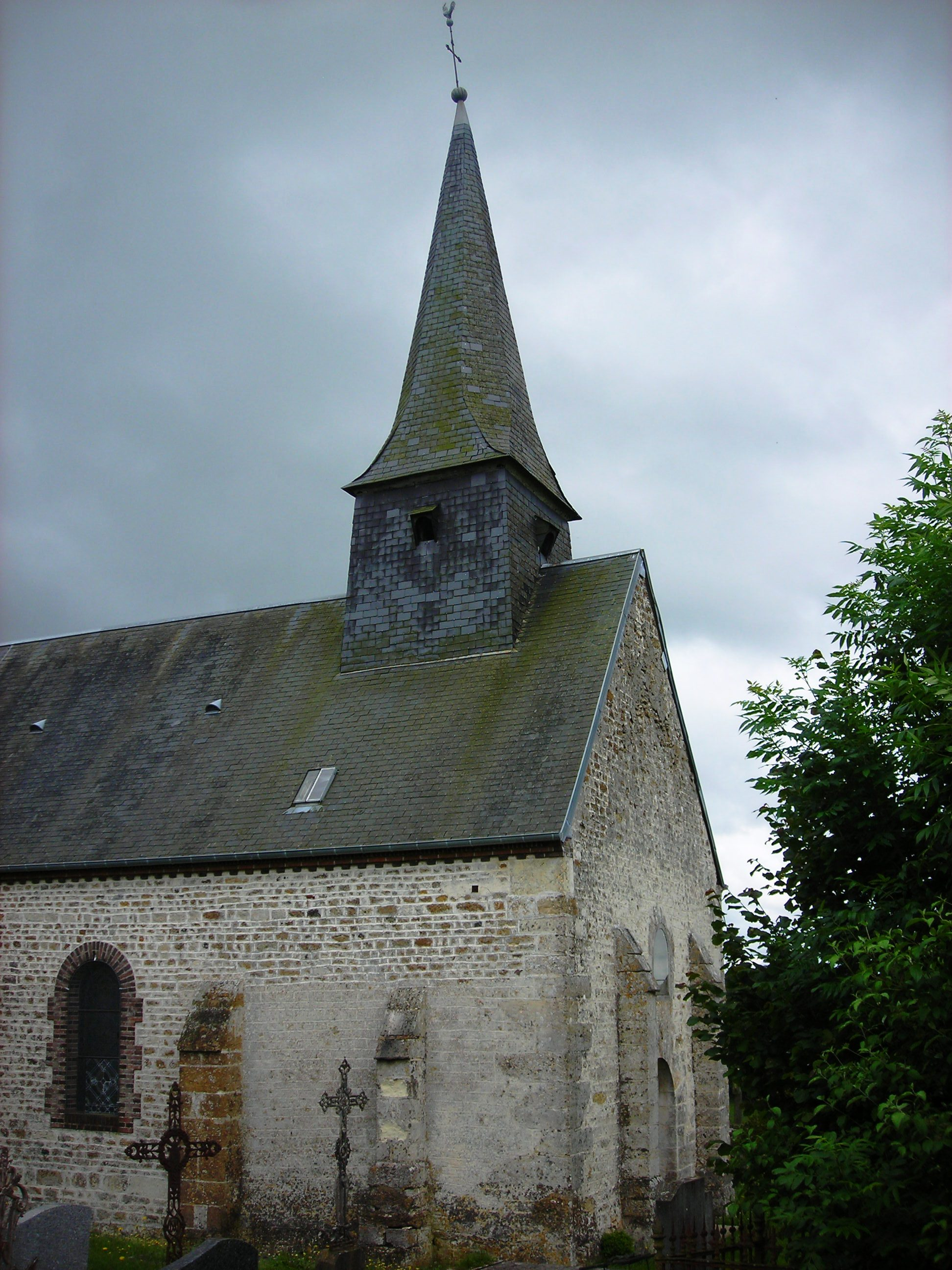 church Les Authieux-du-Puits (France).